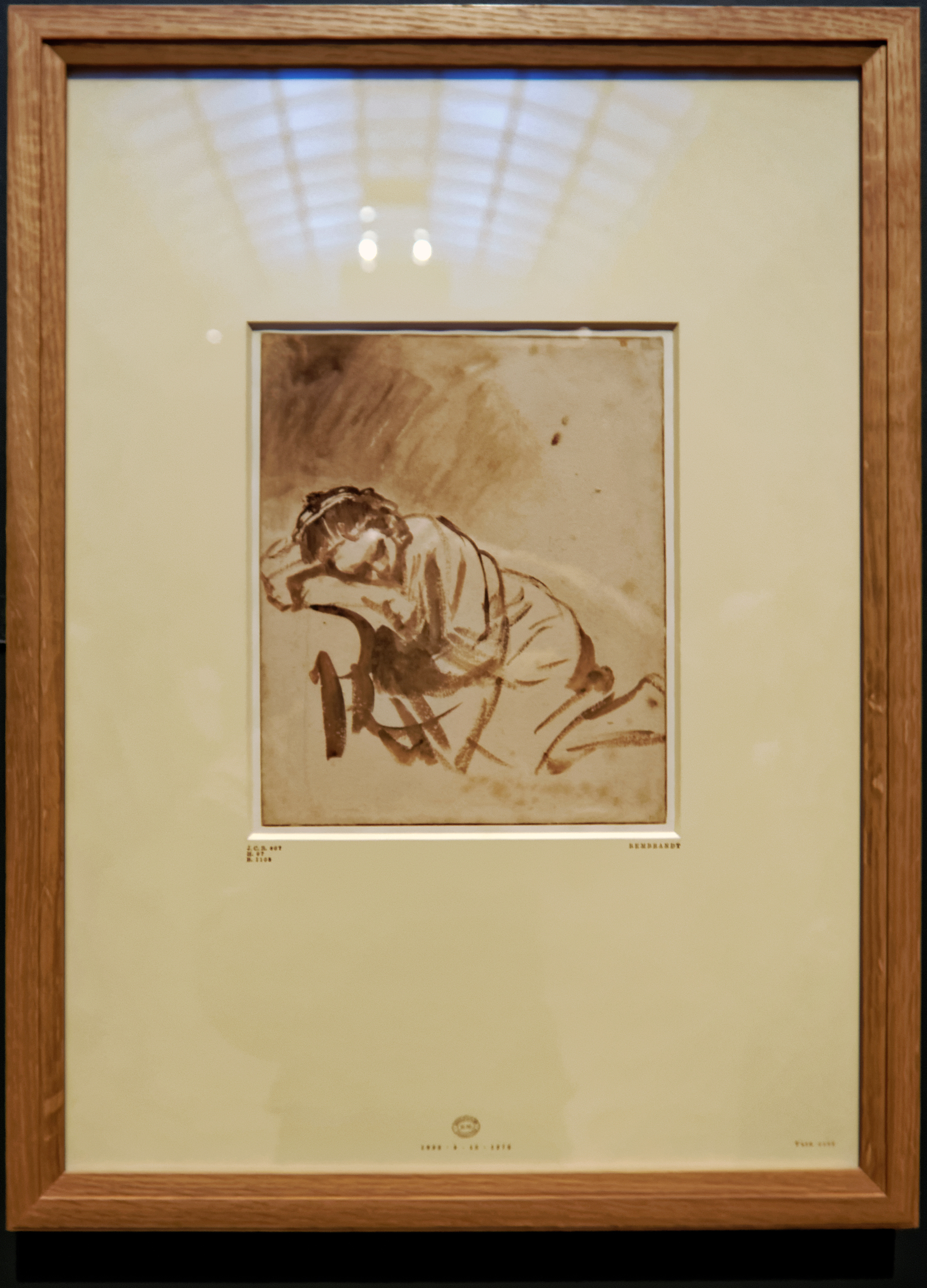 Amsterdam - Late Rembrandt Exposition 2015 - Young Woman Sleeping 1654 (British Museum, London)